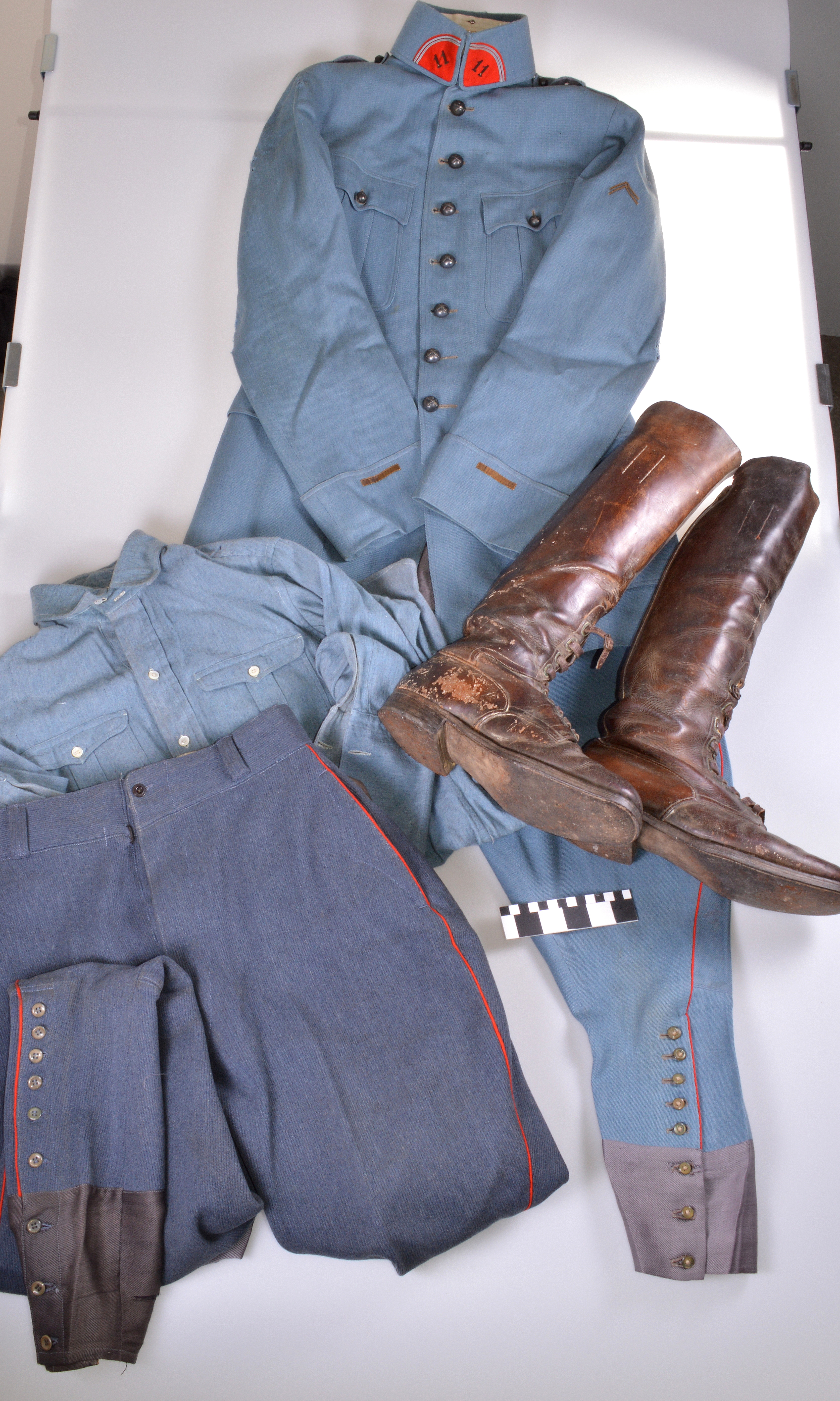 World War I French Uniform of Joseph Desloge. Includes uniform jacket, undershirt, and jodphur style pants in summer and winter weight. Also includes Leather riding style boots. Desloge volunteered for World War I service in January 1917 and was attached to the French Army as an ambulance driver. He later enlisted in the French Army and served as an artillery liaison officer with the 11th Artillery Regiment. He was deorated for valor for his actions near Voziers.Title: World War I French 11th Artillery Officer's Uniform of Joseph Desloge